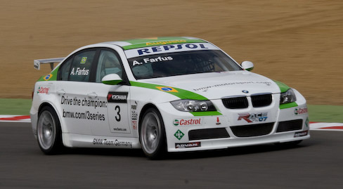 Augusto Farfus (BMW Team Germany) at the 2008 WTCC Brands Hatch race.